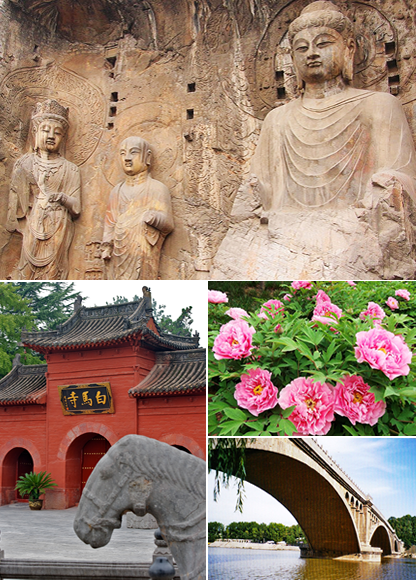 China Luoyang